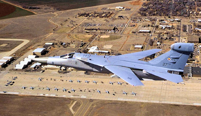 429th Electronic Combat Squadron - EF-111A over Cannon AFB, 1992